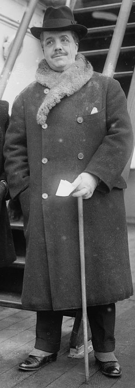 Russian ballet impresario and founder of the Ballets Russes Sergei Diaghilev (1872-1929)